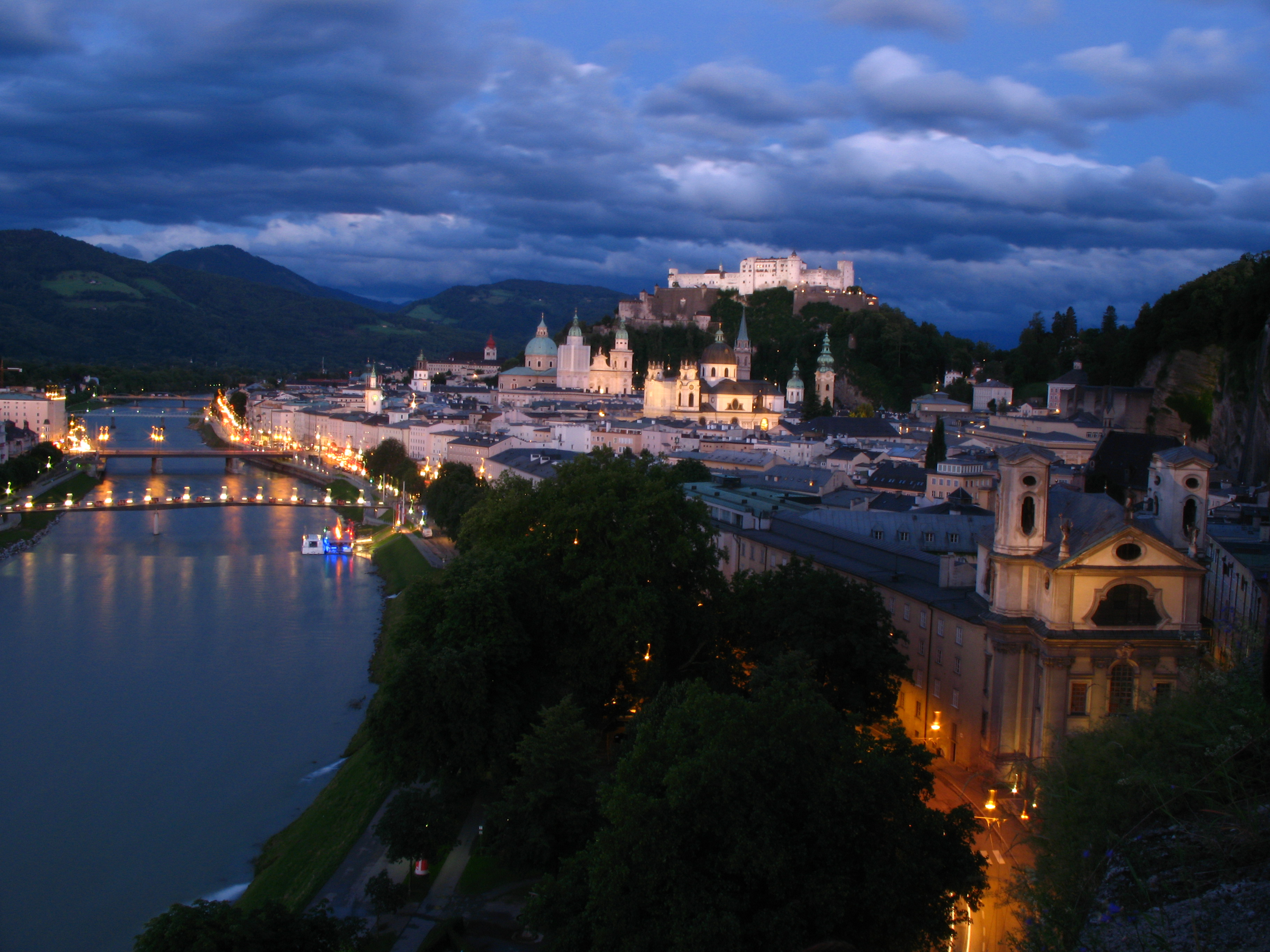 View from Monk Hill, Salzburg, Austria